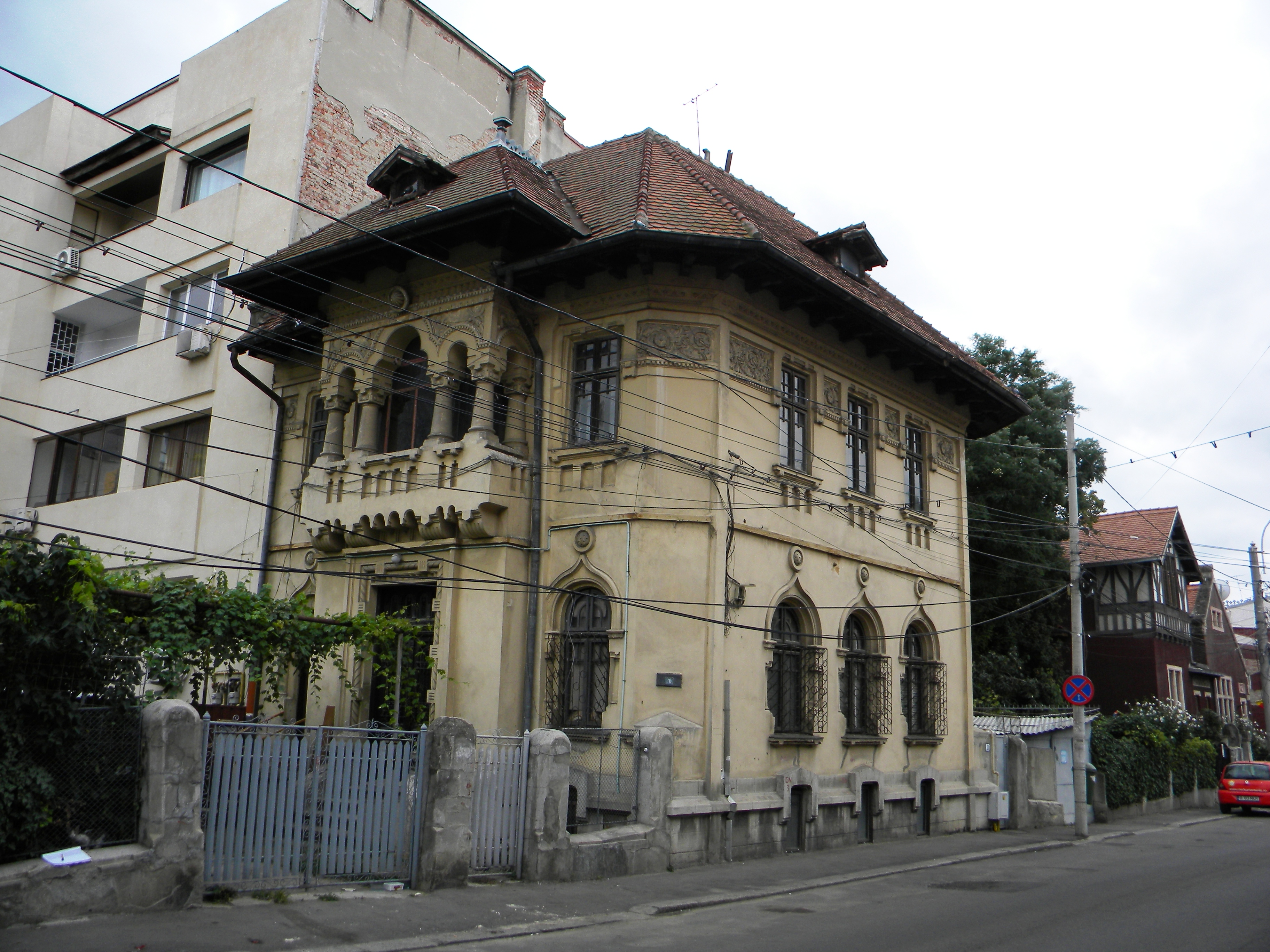 House at Str. Vasile Alecsandri, nr. 20 (listed as a Monument istoric: B-II-m-B-17949) and, behind that, Frederic and Cecilia Cuțescu Storck Museum, Str. Alecsandri Vasile, nr. 16 (listed as a Monument istoric: B-II-m-B-17947)